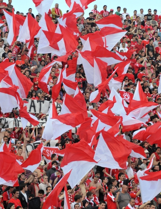 Fans of PFC CSKA Sofia.